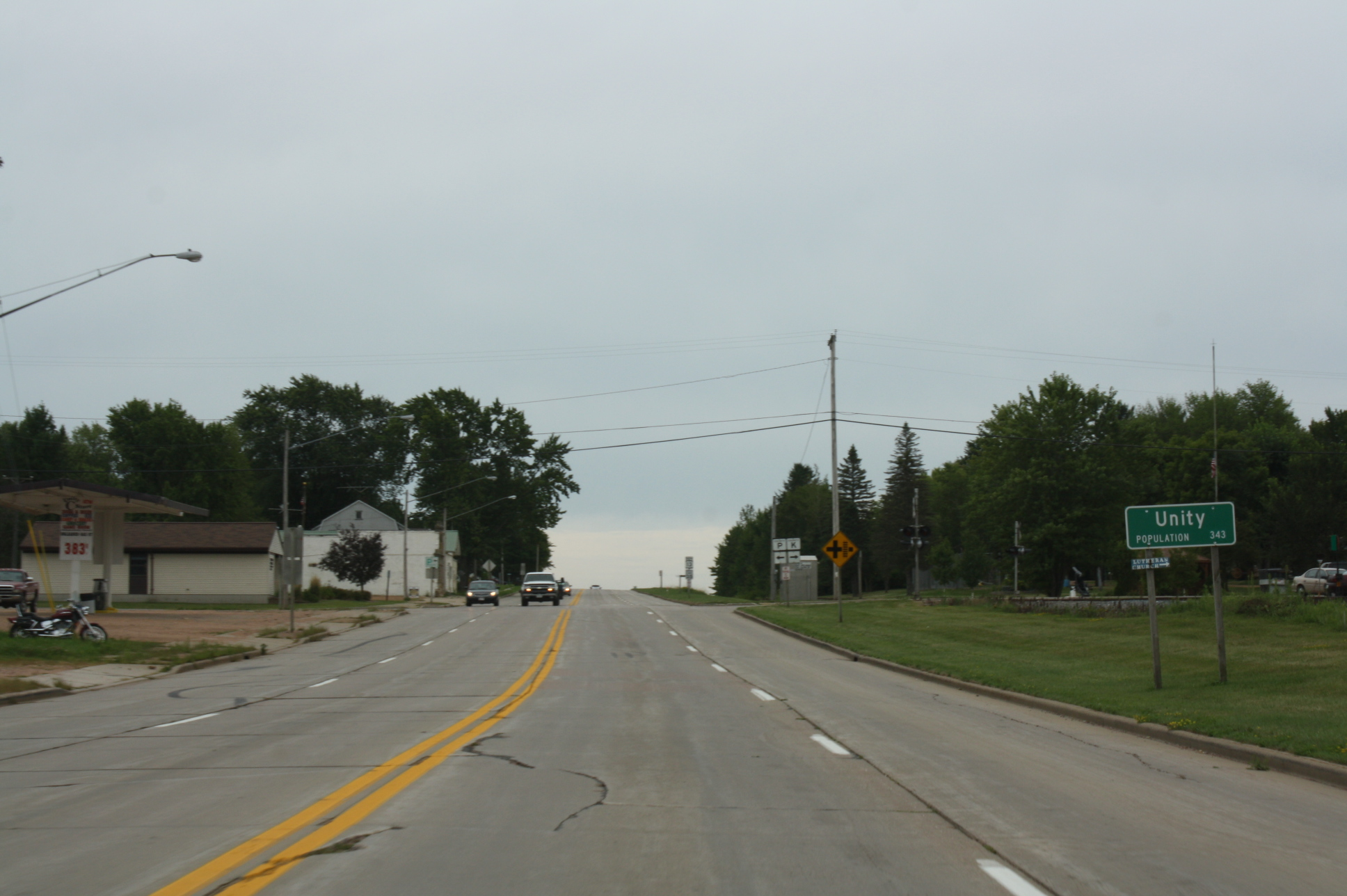 The sign for Unity, Wisconsin on Wisconsin Highway 13.